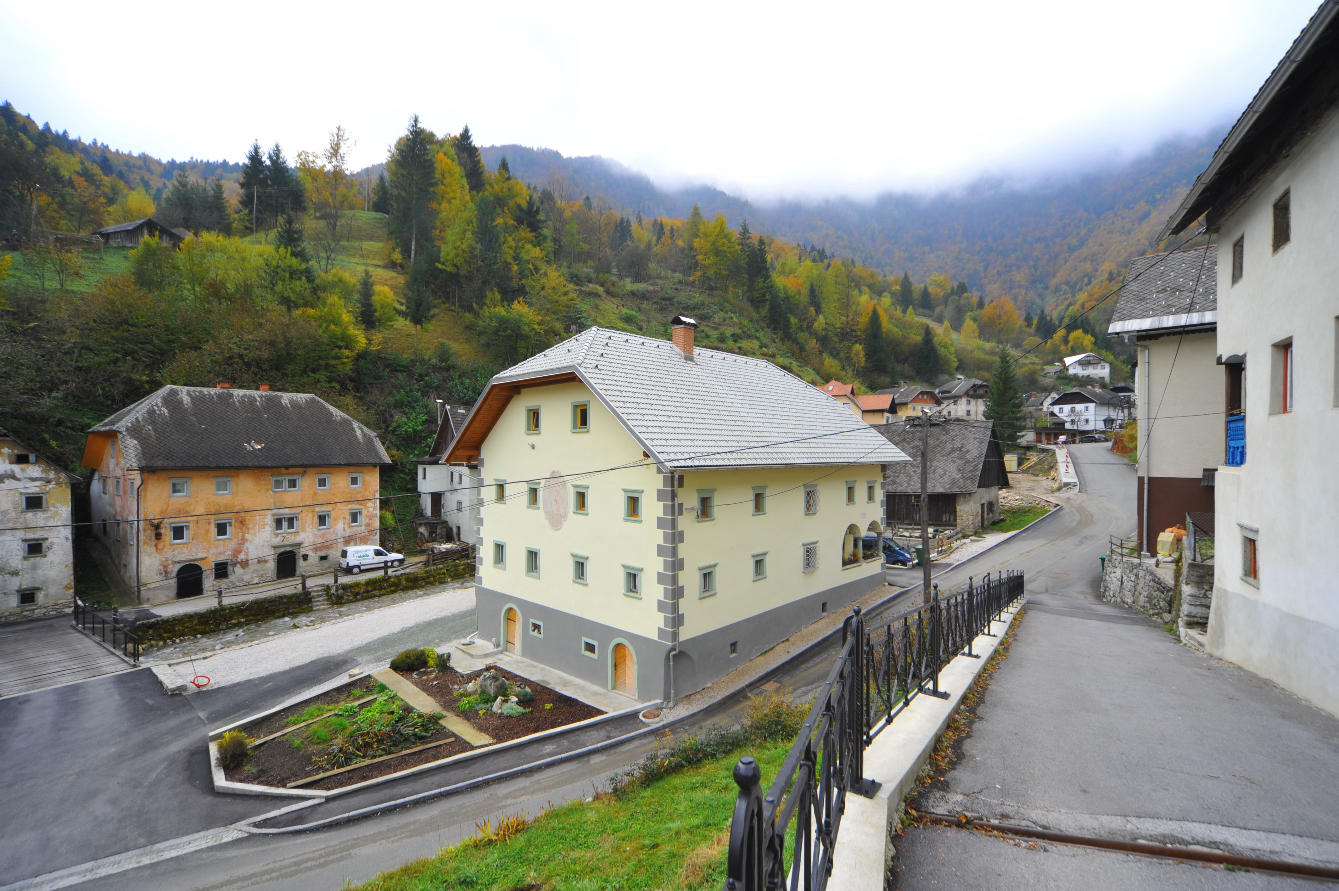 Painter Janez Krstnik Potočnik`s birthplace at Kropa, community Radovljica, Gorenjska, Slovenia.